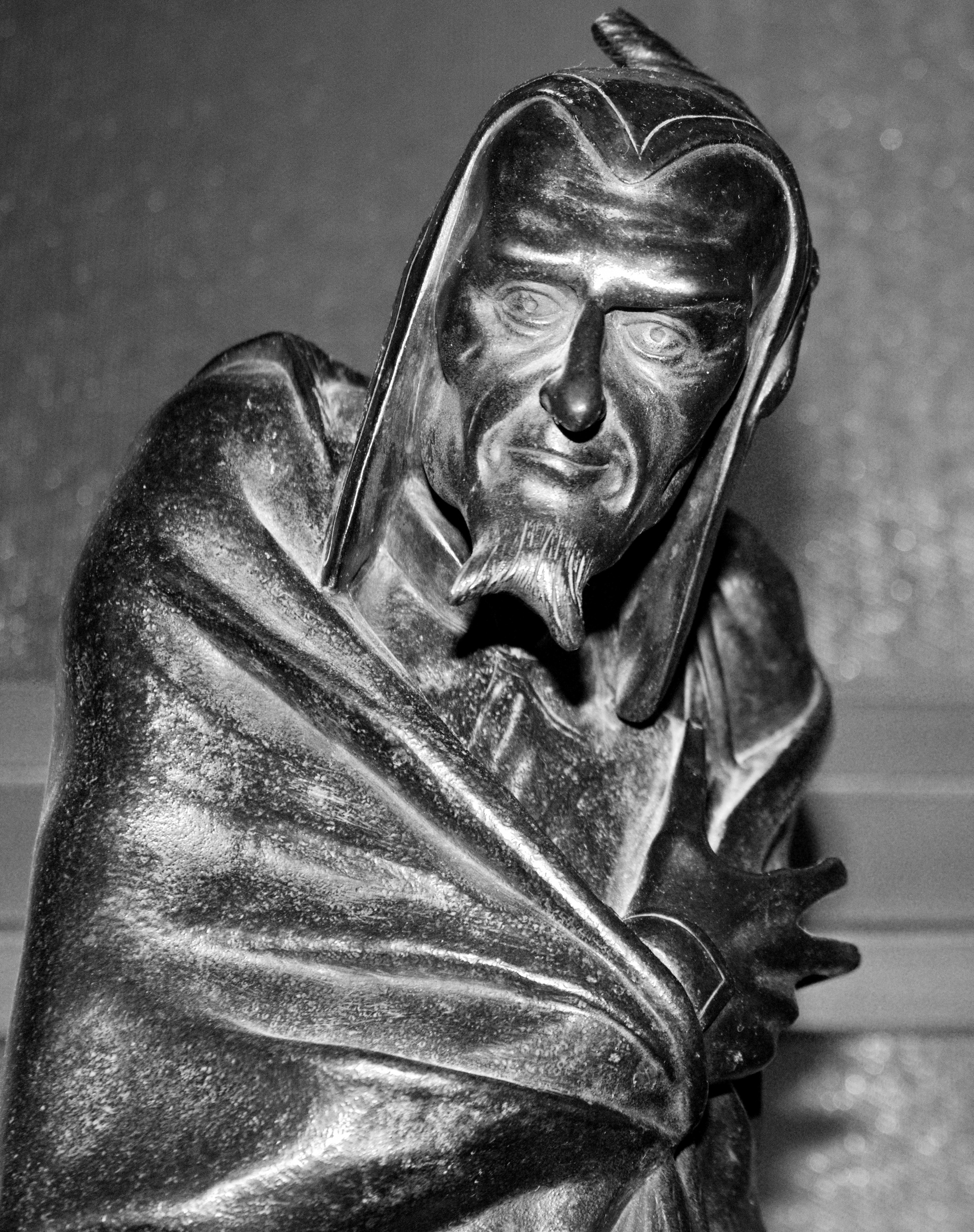 Statue of Faust